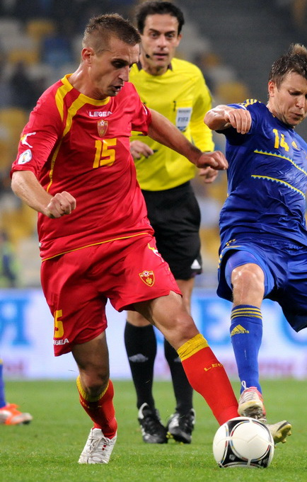 Montenegrin football player Milorad Peković during 2014 World Cup qualifier against Ukraine